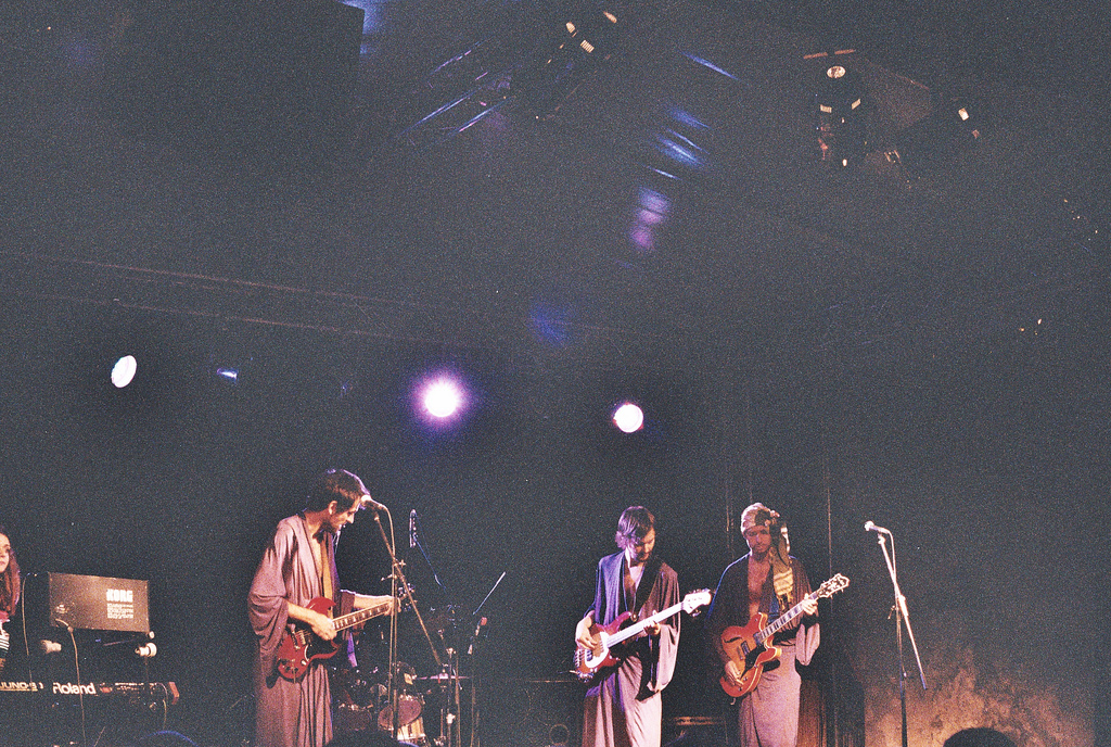 jarboli